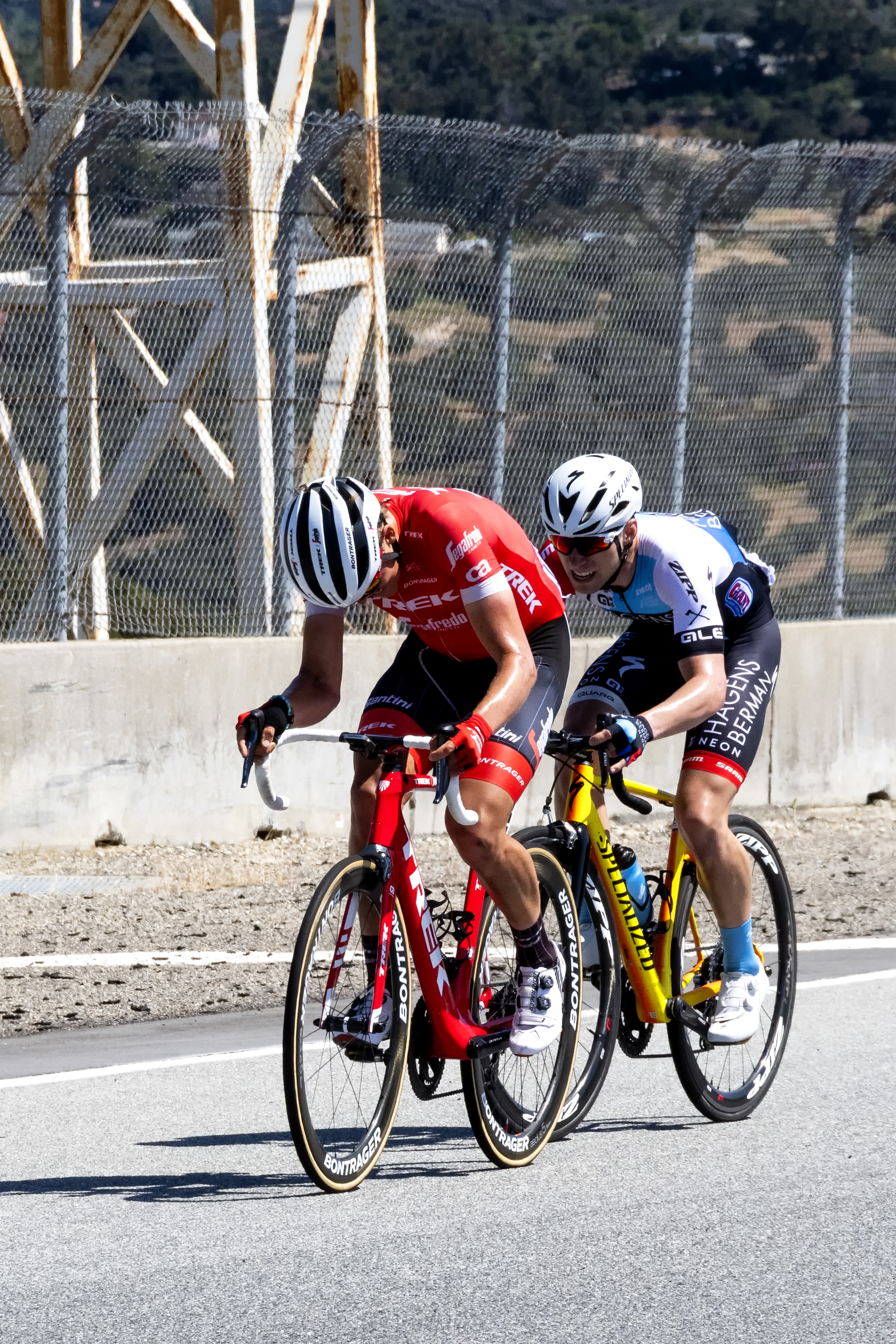 Amgen Tour of California 2018 Stage 3 King City to Laguna Seca UCI World Tour